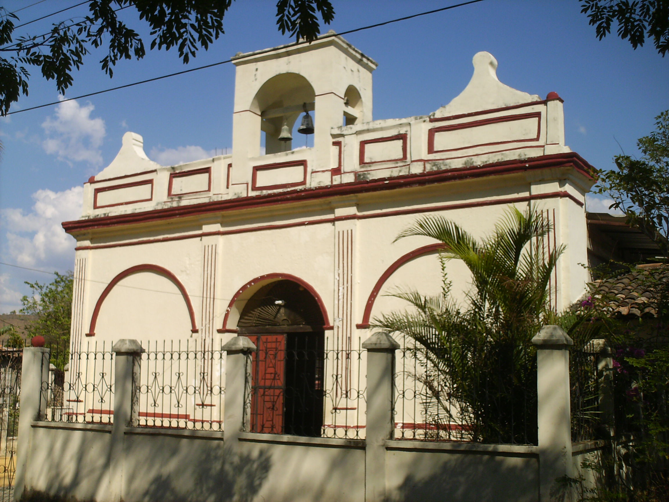 La Virtud, municipality in the Honduran department of Lempira.